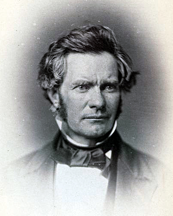 Paul Leidy, US Representative from Pennsylvania